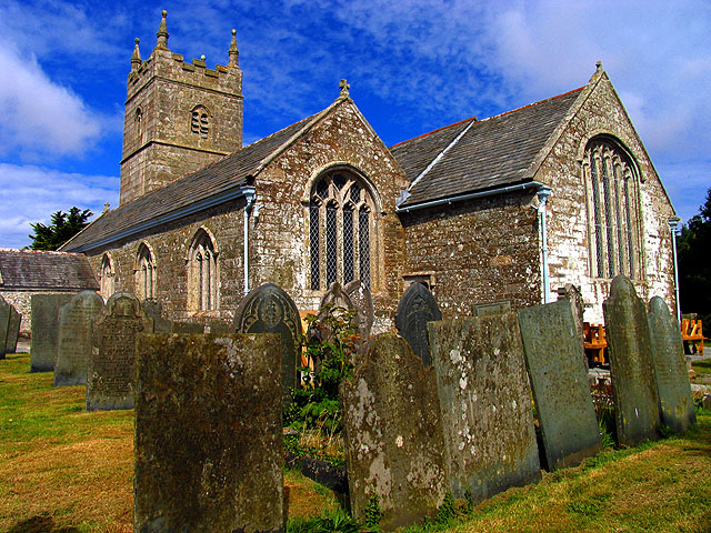 The Collegiate Church of St Endellion. A view of the church in this very small village of St Endellion.